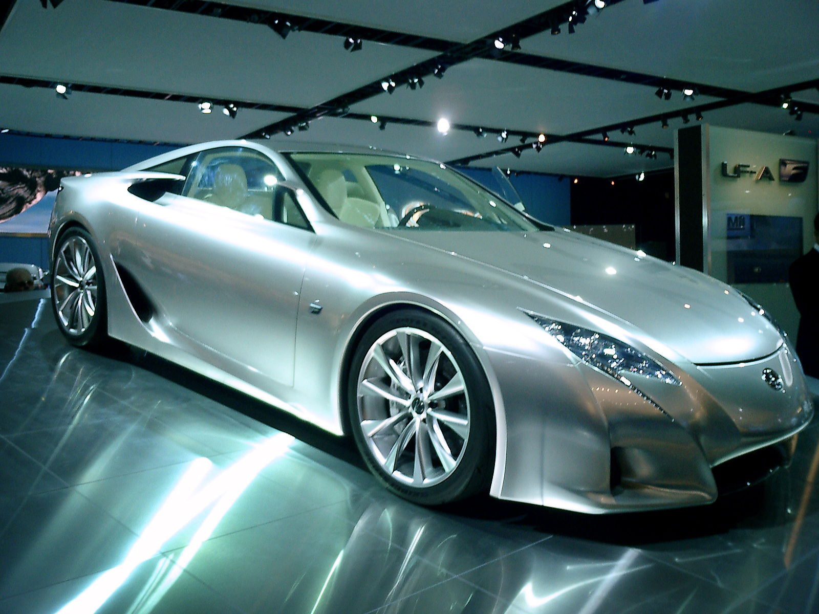 The Lexus LF-A at the Detroit, Michigan Auto Show in 2007